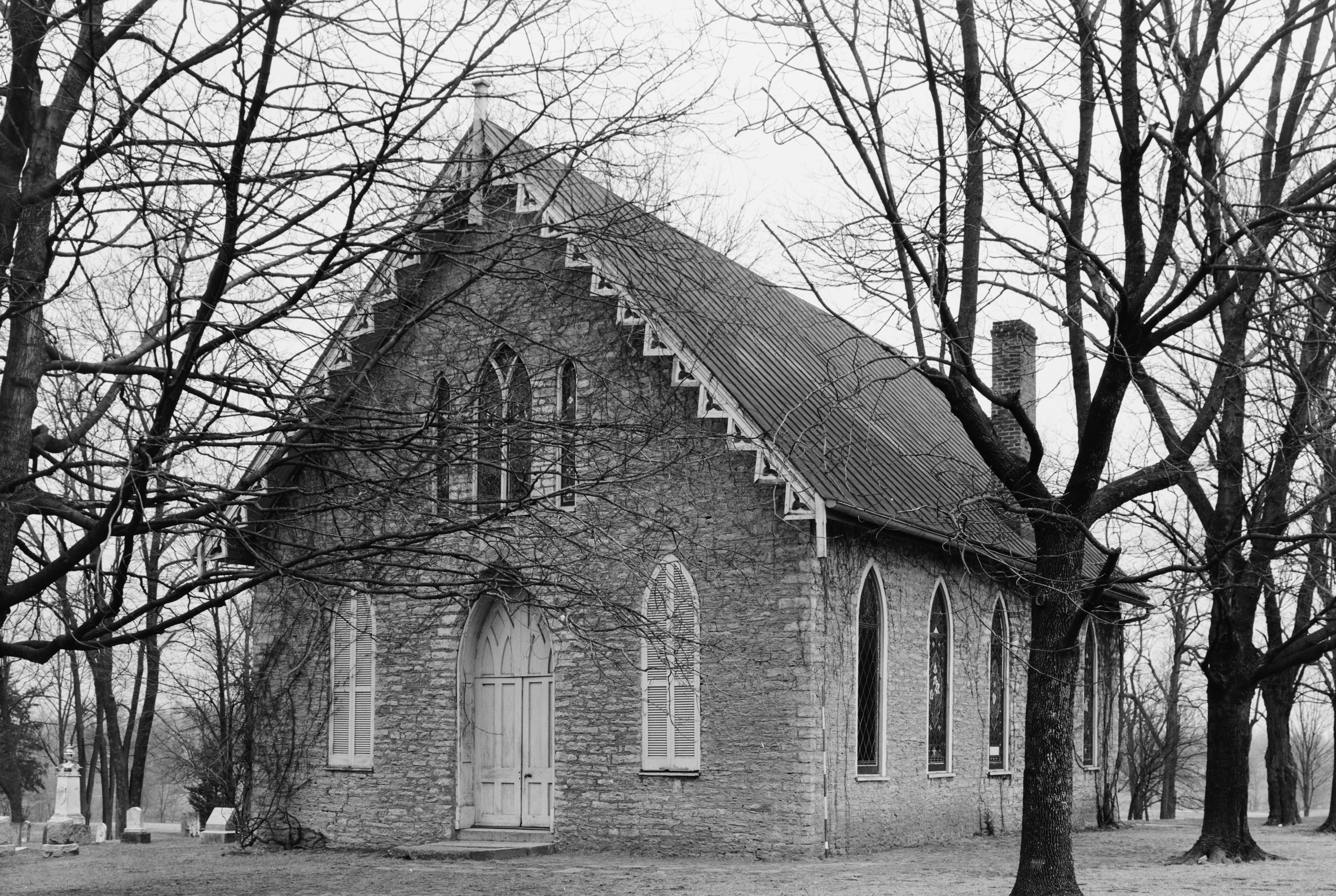 Front and side of Pisgah Presbyterian Church, located off U.S. Route 60 near Versailles in Woodford County, Kentucky, United States. Built in 1812, the church is listed on the National Register of Historic Places.